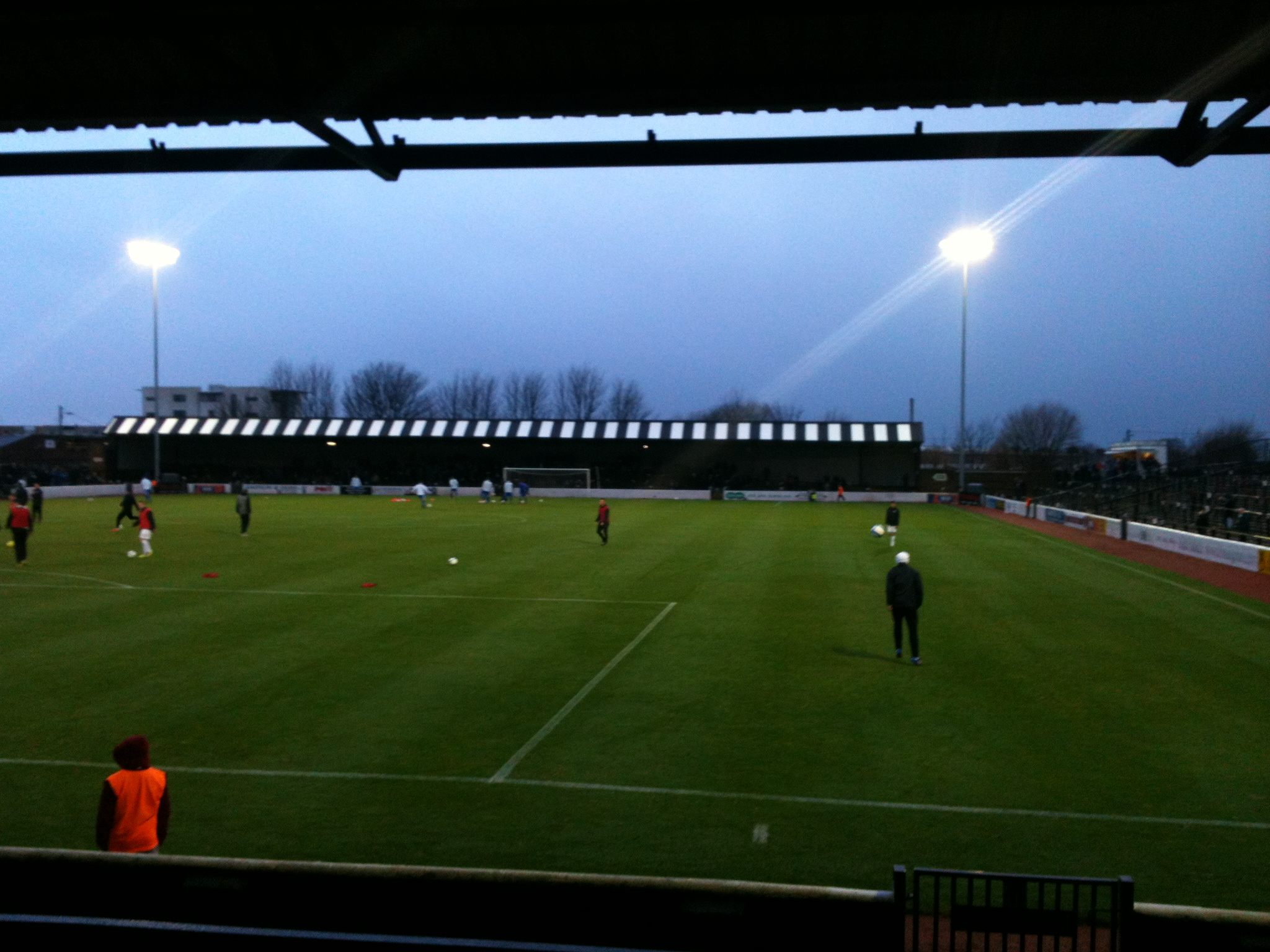 An image of the Railway End at Ayr United FC's Somerset Park. Taken by myself prior to kick of in the match between Ayr United FC and Queen of the South FC in January 2013.